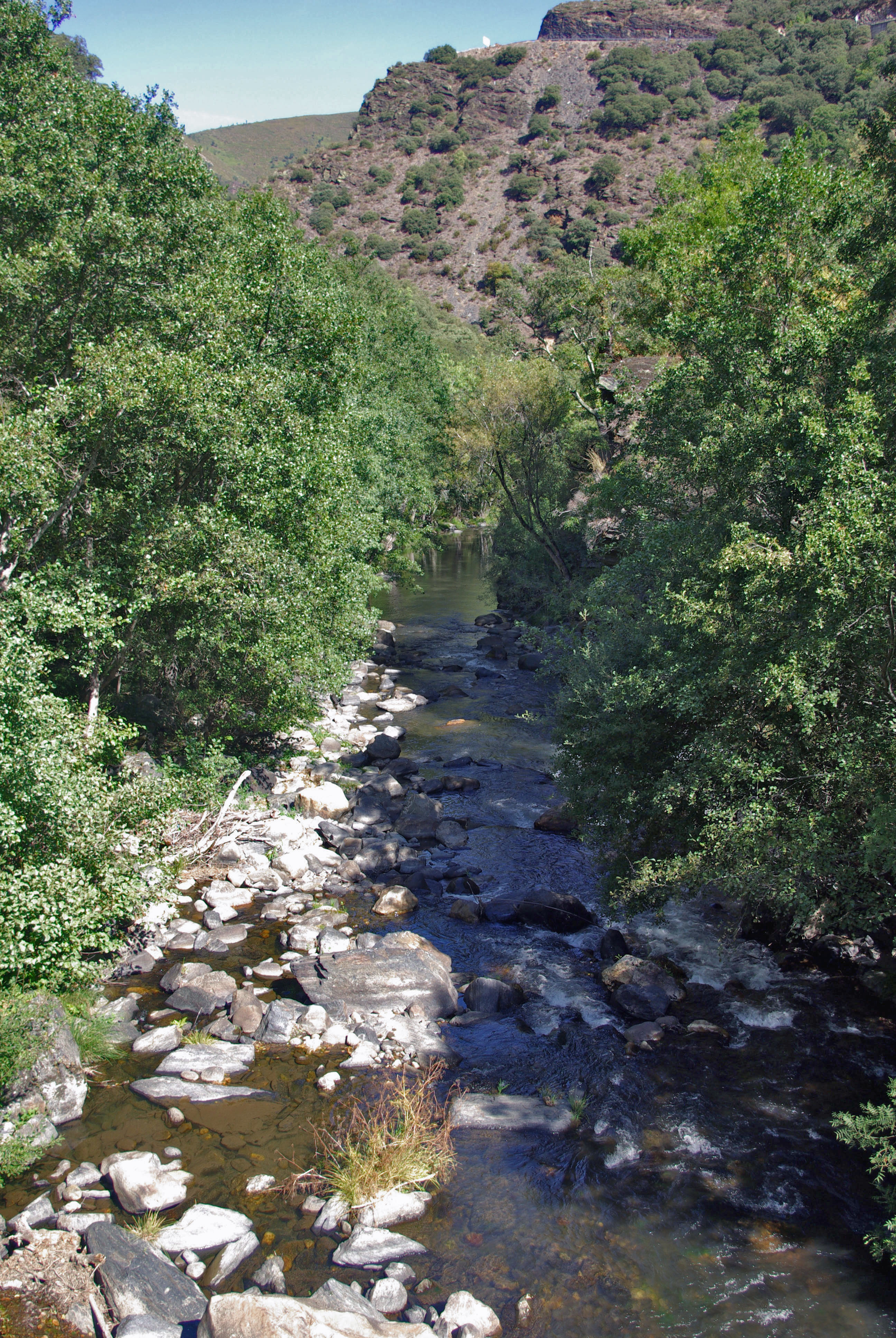 River Cabrera, Sil basin. Near Llamas de Cabrera, León (Spain)